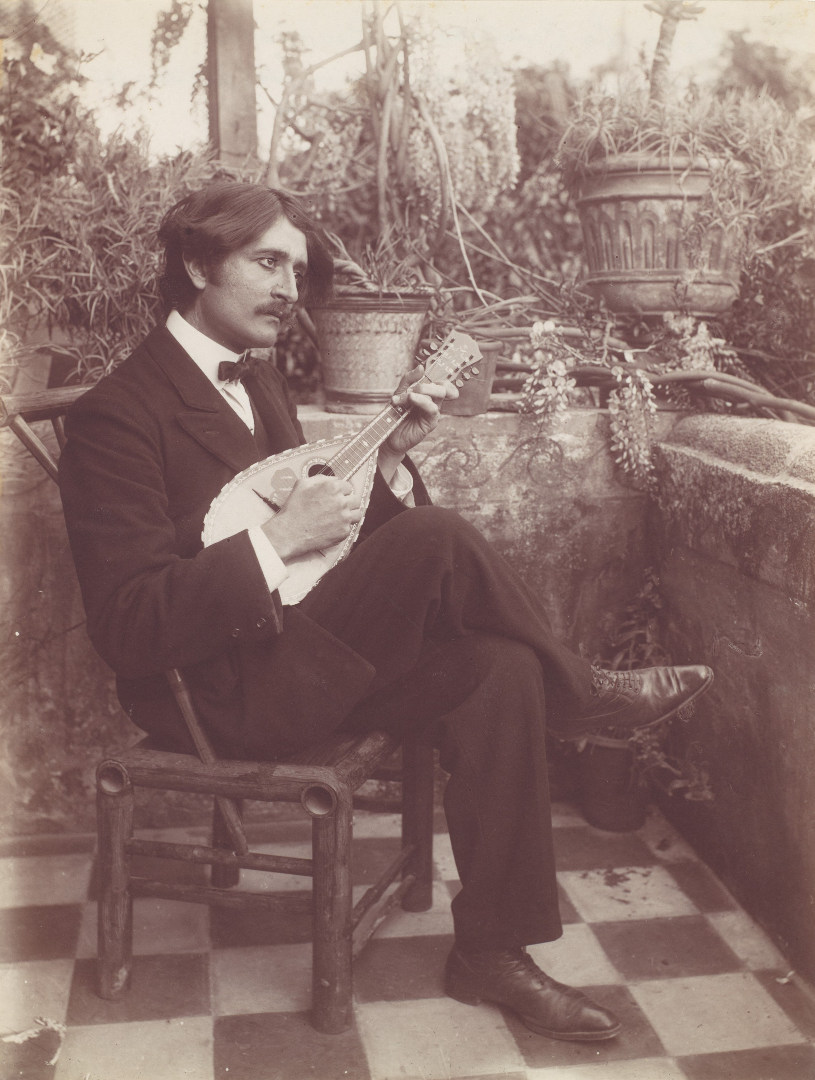 Wilhelm von Gloeden (1856-1931), Portrait of a gentleman playing a mandolin on the staircase of Gloeden's villa in Taormina. Catalogue number: 2417. A portrait of the same sitter was first recognised as showing Gloeden's cousin, the photographer Wilhelm von Plüschow (1852-1930) in 1997, in the antiquarian catalogue # 5 by Serge Planteux, item # 193, and since accepted. However, The Metropolitan Museum in New York published online another portrait of the same sitter playing a mandolin, inscribed on the reverse with a dedication calling him "Mico Lo Giudice-Berbiredolu, the magician of mandolin. (From the director of Milan's Conservatory)". ("Barbiredolu" clearly comes from a misreading of an handwritten "du" as "olu"). Mario Bolognari, who wrote I ragazzi di von Gloeden. Poetiche omosessuali e rappresentazioni dell'erotismo siciliano tra Ottocento e Novecento (Reggio Calabria, 2012) recognized him as Domenico (called "Mico") Lo Giudice (1871-1942), dubbed "Barbareddu" ("The little barbarian") or "Barbireddu" ("the little barber"), a nickname his grand-grand-children in Taormina still bear today. Since this is a really existing person, this identification should be considered the most likely one, since no-one would mis-give a picture of a famous sitter for the one of an unkwnown one, whereas the reverse is easier. The sitter also appears in the historical picture published in the website of Hotel Schuler in Taormina, here.